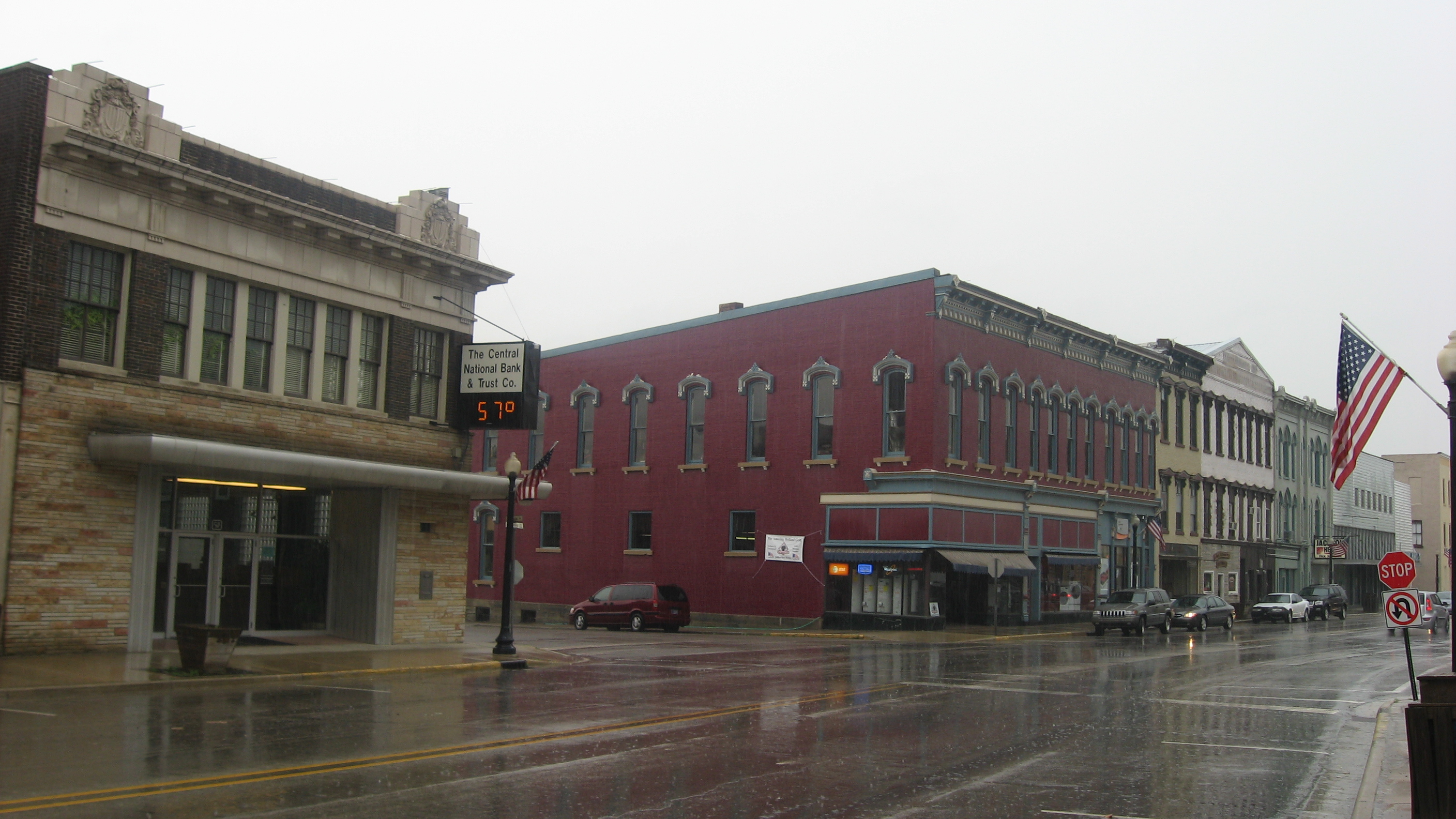 Buildings on the western side of Perry Street on both sides of the Main Street intersection in downtown Attica, Indiana, United States. This portion of the downtown is the core of the Attica Downtown Historic District, a historic district that is listed on the National Register of Historic Places.